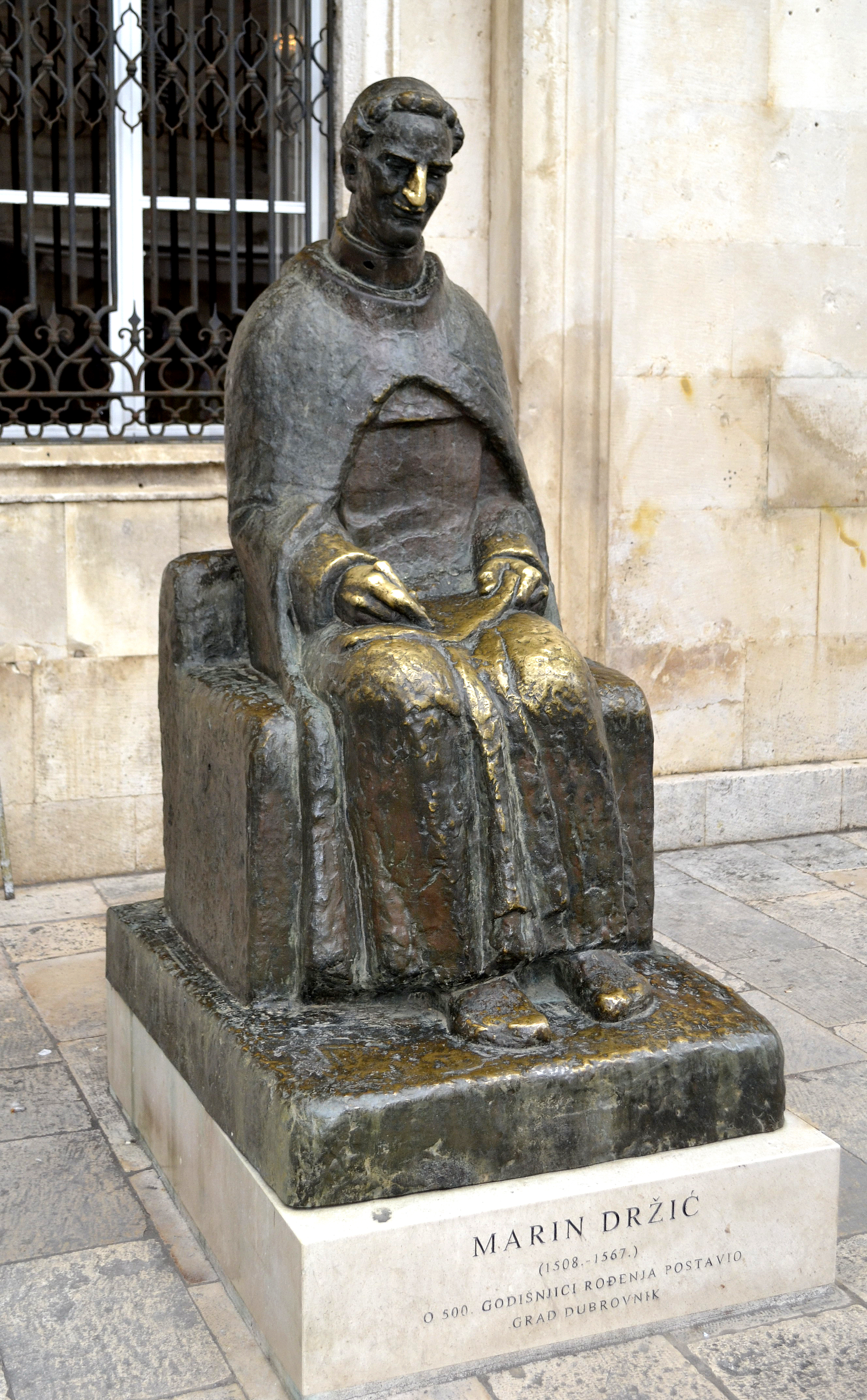 Statue of Marin Držić on the main city square in Dubrovnik